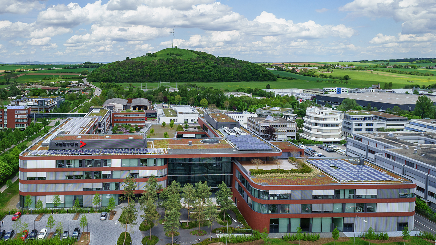 View from the south on the Vector Campus in Stuttgart Weilimdorf